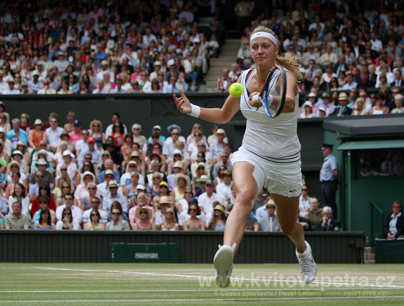 Czech tennis player Petra Kvitova in the final match at the 2011 Wimbledon against Maria Sharapova